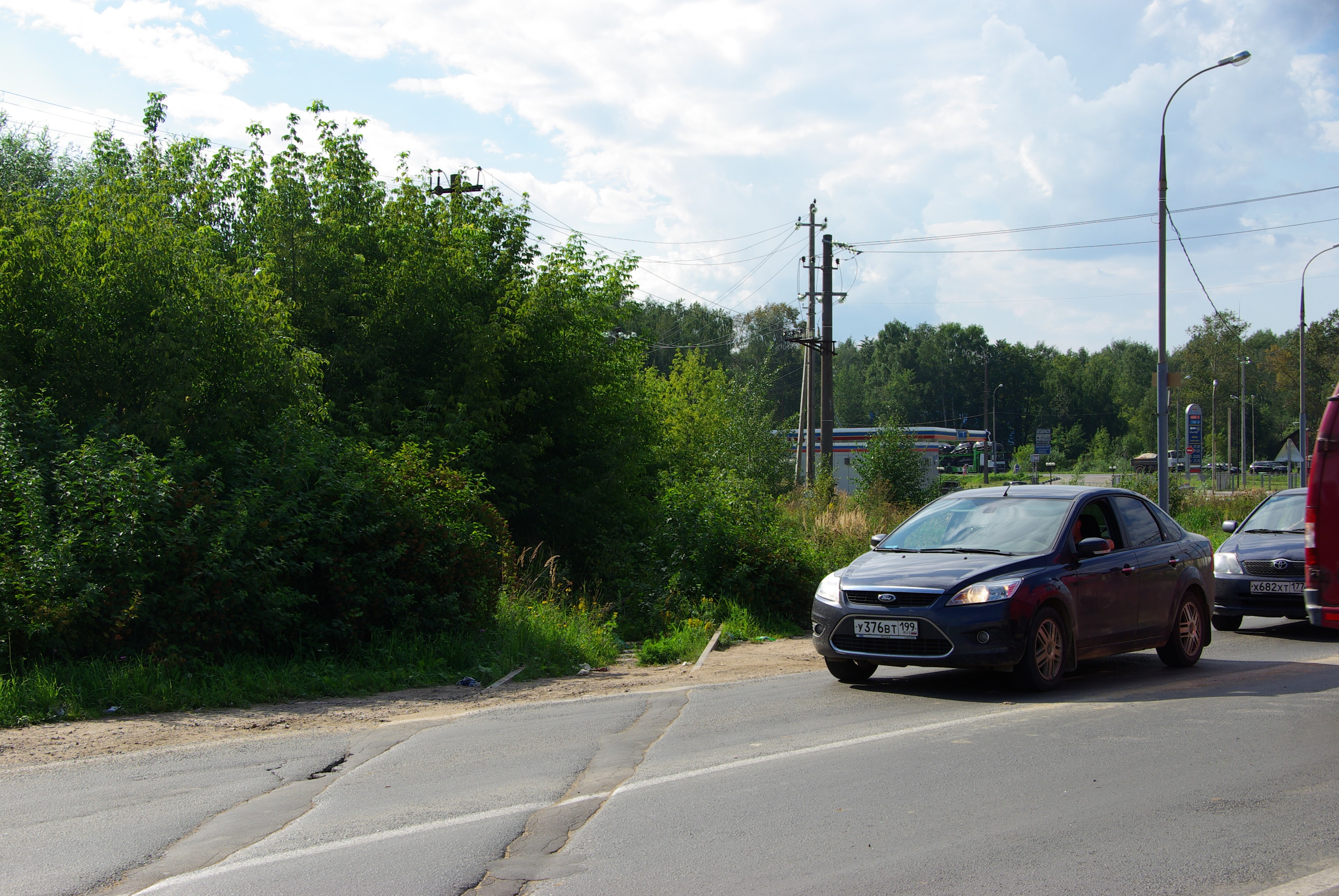 Nakhabino - Pavlovskaya sloboda railway line